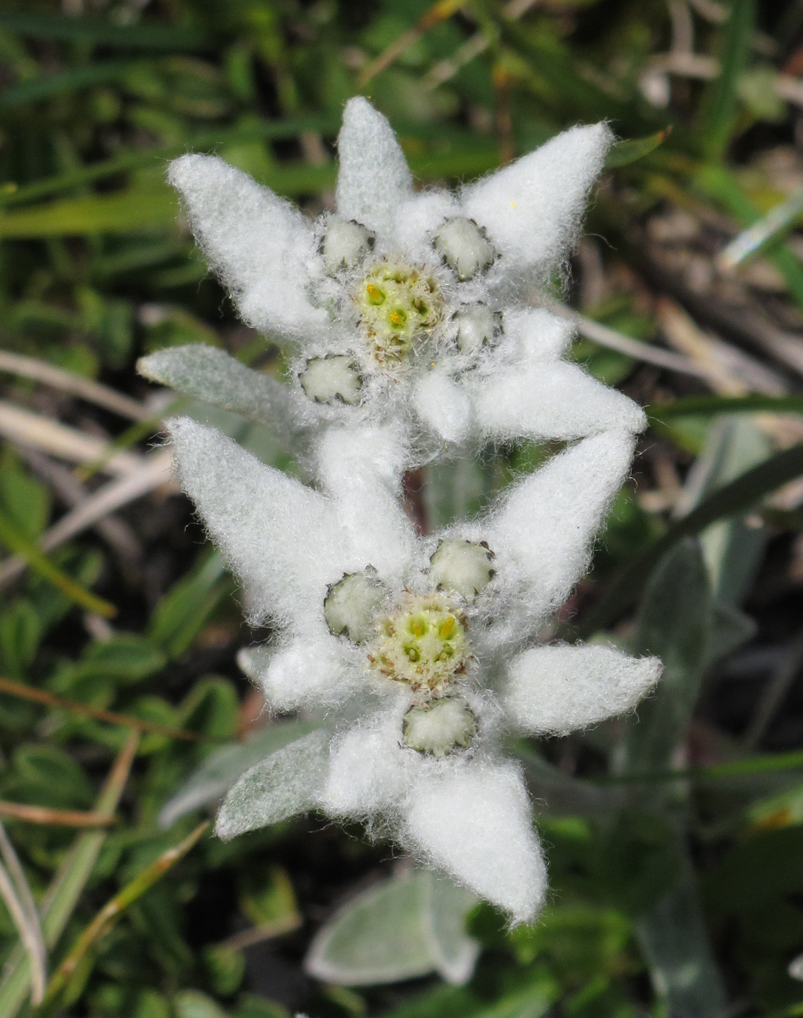 Edelweiss (Leontopodium nivale subsp. alpinum) between Rifugio Firenze and Seceda, Italy